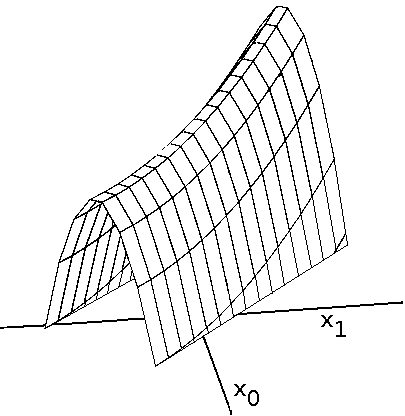 I made this image, and I gift it to the public domain.